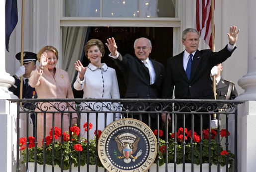 Author: Paul Morse (White House photographer) Source URL: Description: "President George W. Bush, Prime Minister John Howard, Mrs. Laura Bush and Mrs. Janette Howard wave from the South Portico of the White House during the State Arrival Ceremony on the South Lawn Tuesday, May 16, 2006. White House photo by Paul Morse"